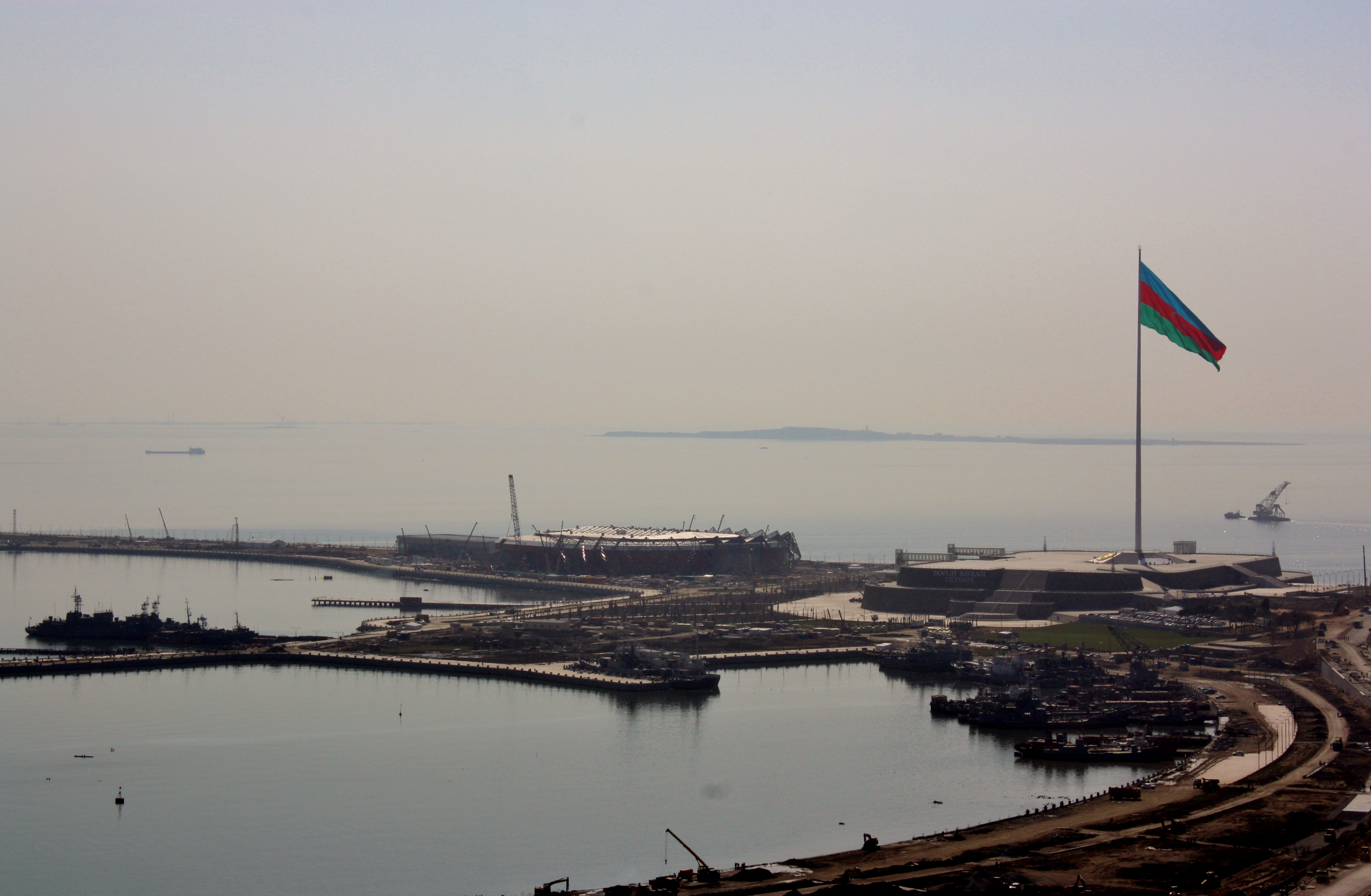 Baku Crysta Hall.